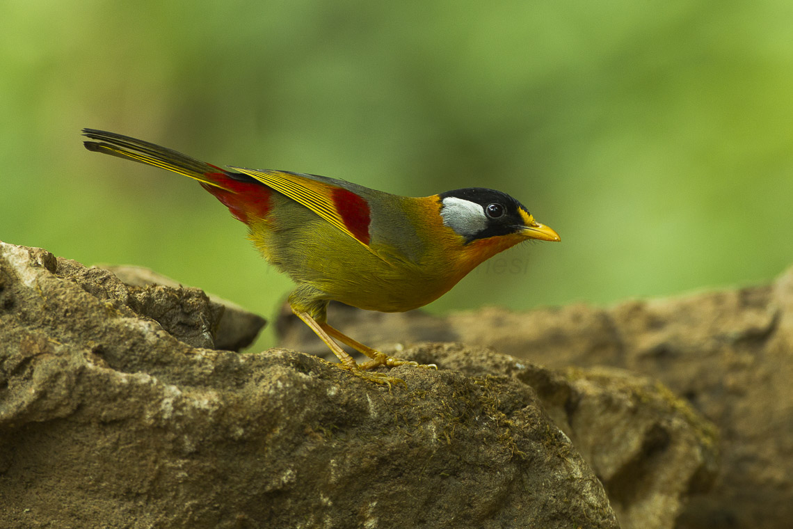 Silver-eared Mesia - Chiang Mai - Thailand_S4E8964